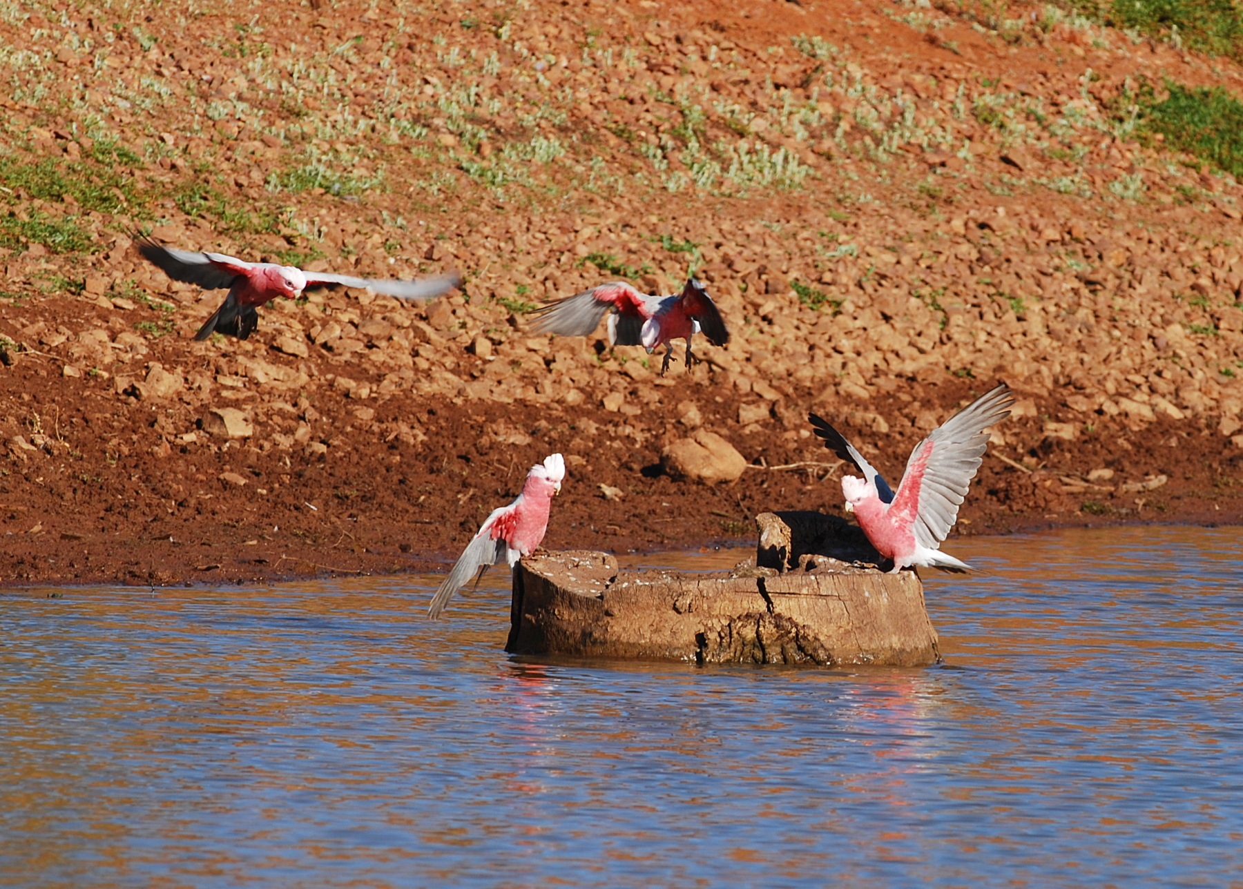 Galahs landing for a drink in the Rawnsley Park Dam, Near the Flinders Ranges, South Australia